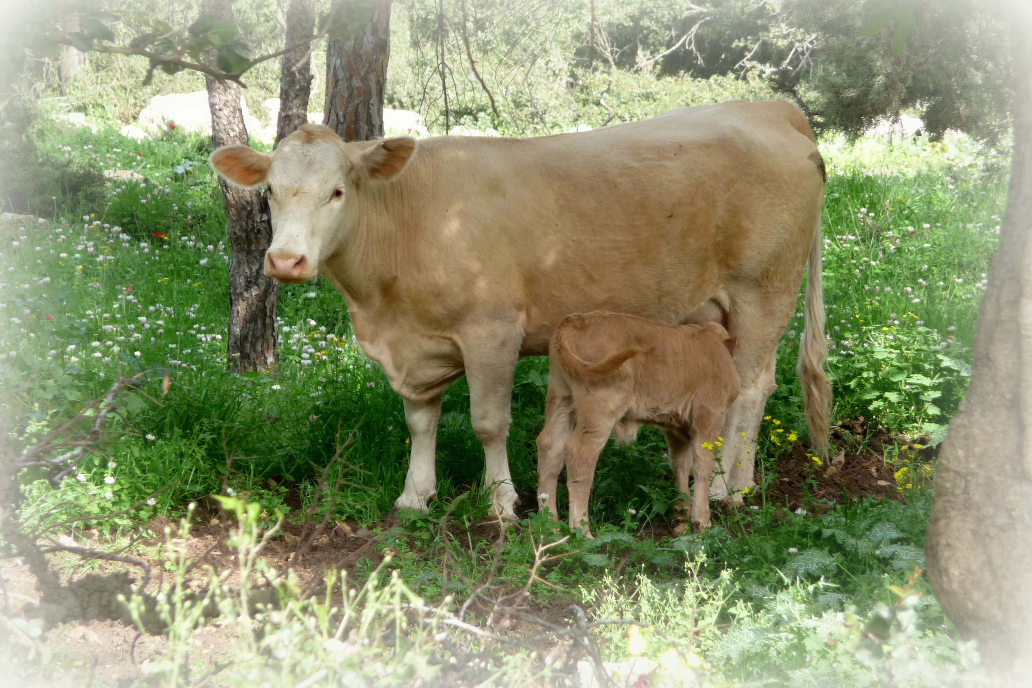 Carmel Park